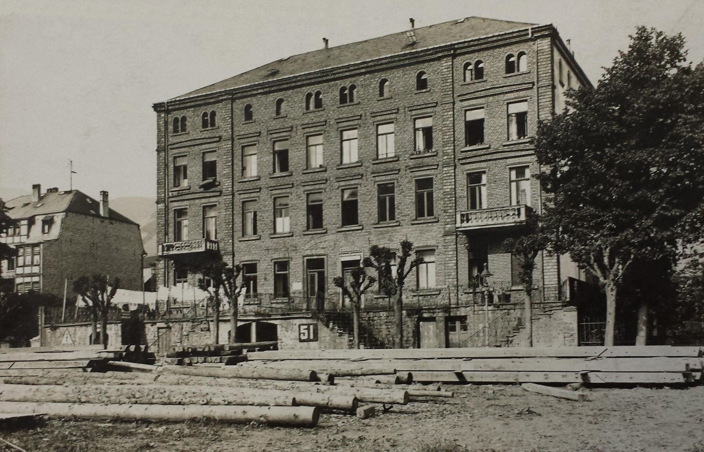 The old post office in Cochem during the reconstruction of 1910 Moselstraße 90-91